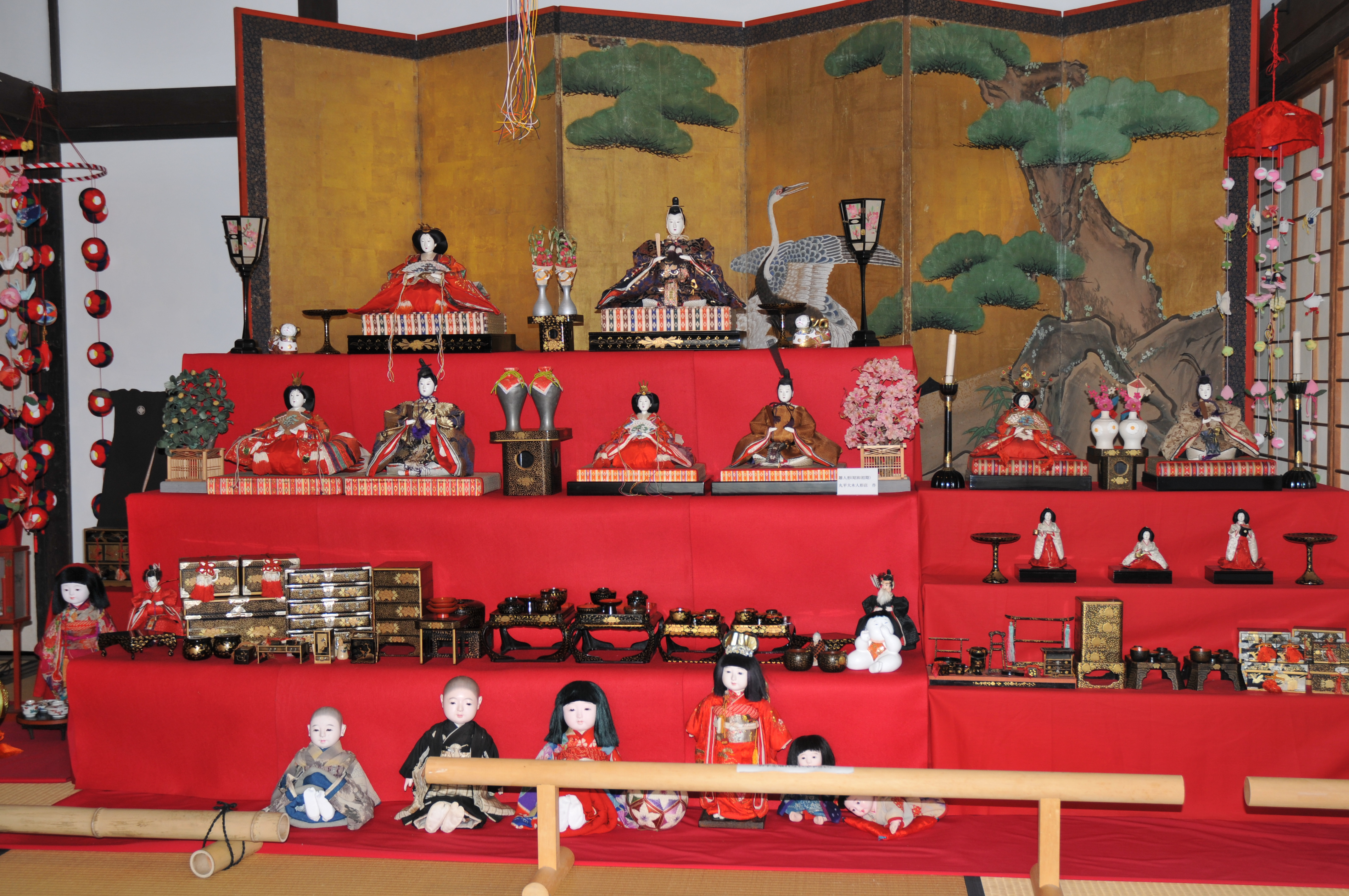 Hina dolls and Ichimatsu dolls